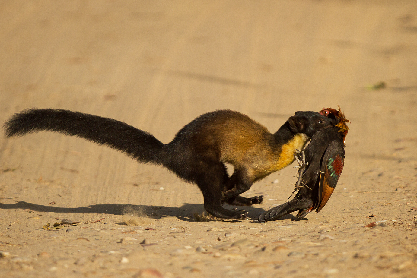 This rare event was captured in the Bijrani zone of Corbett TR, Uttarakhand, India during a winter morning safari.